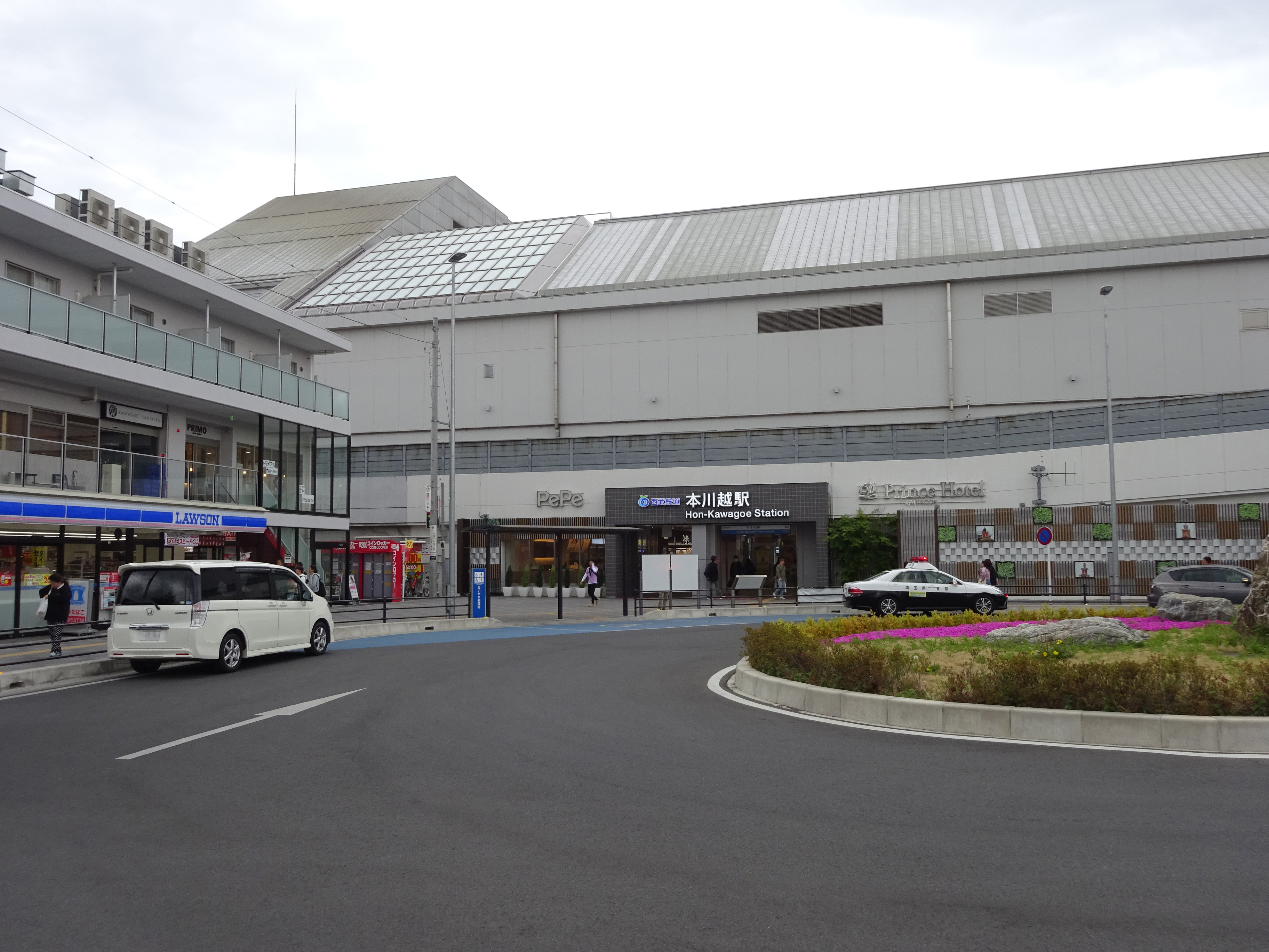 West entrance of Hon-Kawagoe Station